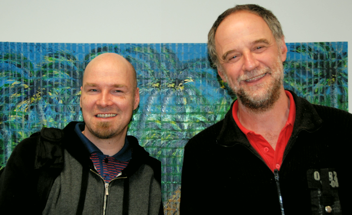 Mans Hulden and Iñaki Alegria two researchers in Natural Language Processing